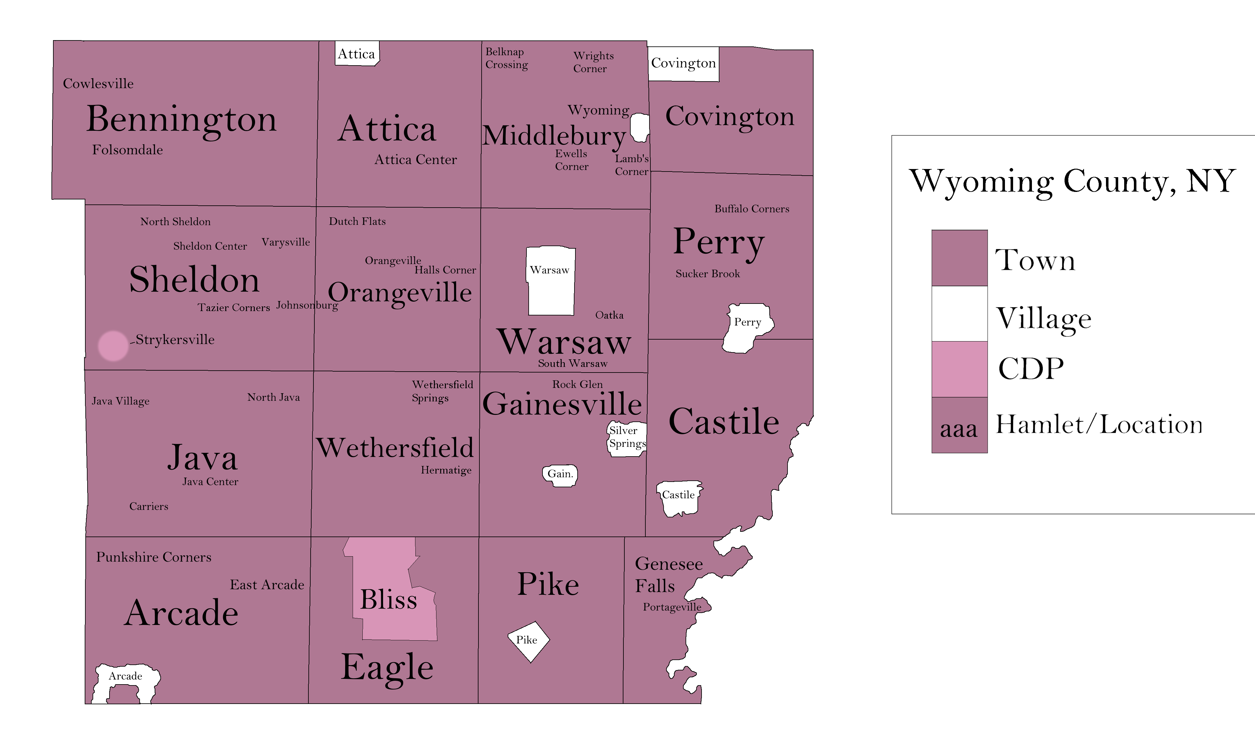 This is a map of Wyoming County, NY showing towns, villages, CDPs, and hamlets. Wyoming County does not have any cities or reservations.